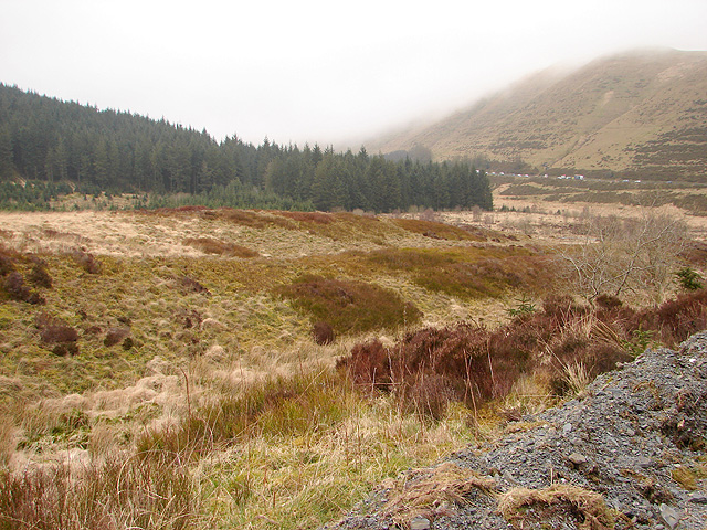 Cae Gaer Roman Fort, 3 km from Pant Mawr, Powys, Wales. The earthworks and ramparts of the fort are readily visible. Various theories have been propounded to explain the purpose of the site but the most likely is that it represents the remains of a turf and timber fort. The site was excavated in 1913 and is thought to date from Nero's Welsh Campaign in AD57/58. It is suggested that the fort would have been the barracks for a 'cohort' of some 500 men but would have been too limited to accommodate the whole cohort, the remainder of which may have been based at Pen-y-Crocbren SN855935 , some 8 miles to the north. There is a possibility that the Romans mined quartz in the vicinity of Cae Gaer. More information about the site can be found here: Link